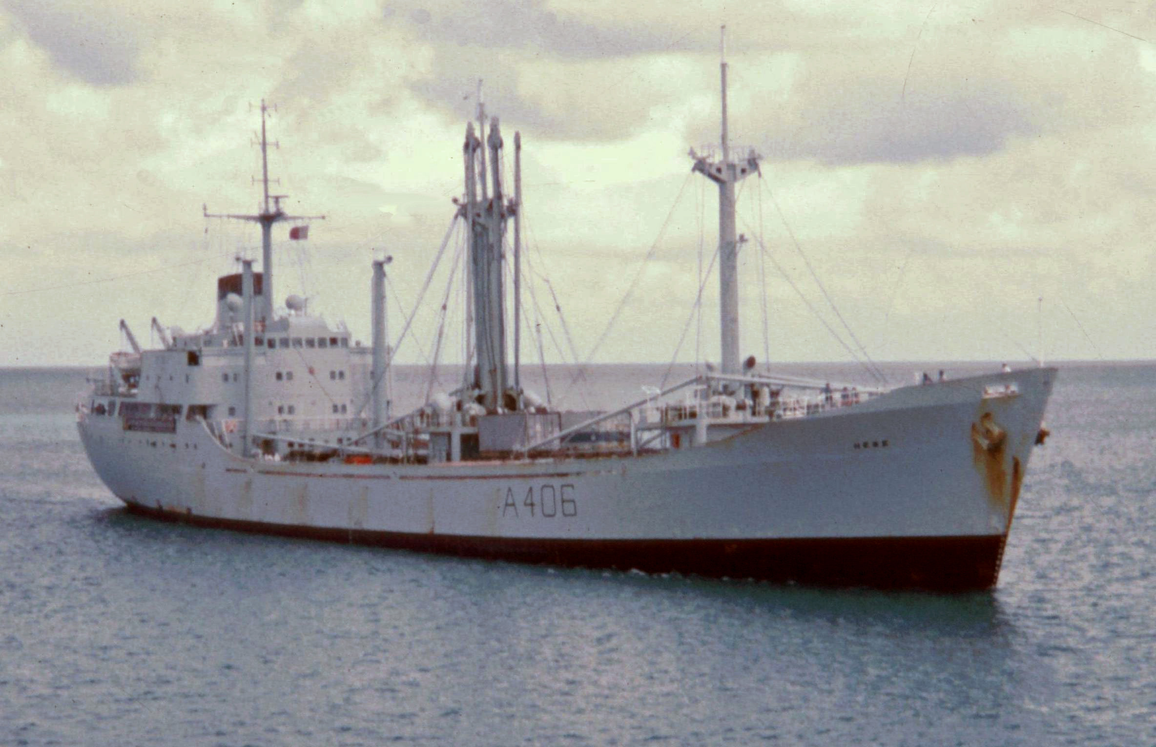 RFA Hebe at Port Louis, Mauritius in 1972.